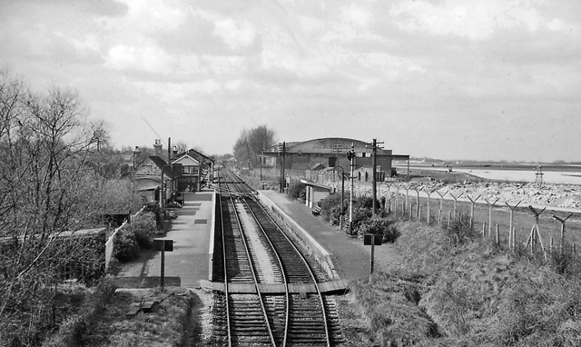 Brize Norton & Bampton Station. View westward, towards Fairford; ex-GWR Oxford - Witney - Fairford branch, closed completely 18/6/62. The station was called plain 'Bampton' until 1940. On the right is RAF Brize Norton, which at the time of the photograph the USAF (Strategic Air Command) was occupying, with its nuclear-capable bombers.